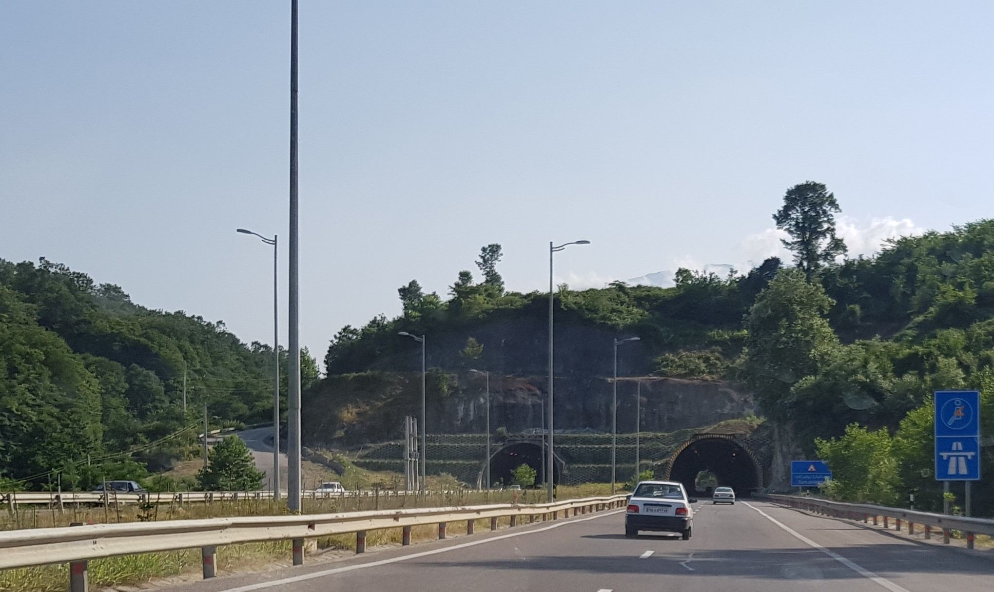 Tehran-Shomal Freeway